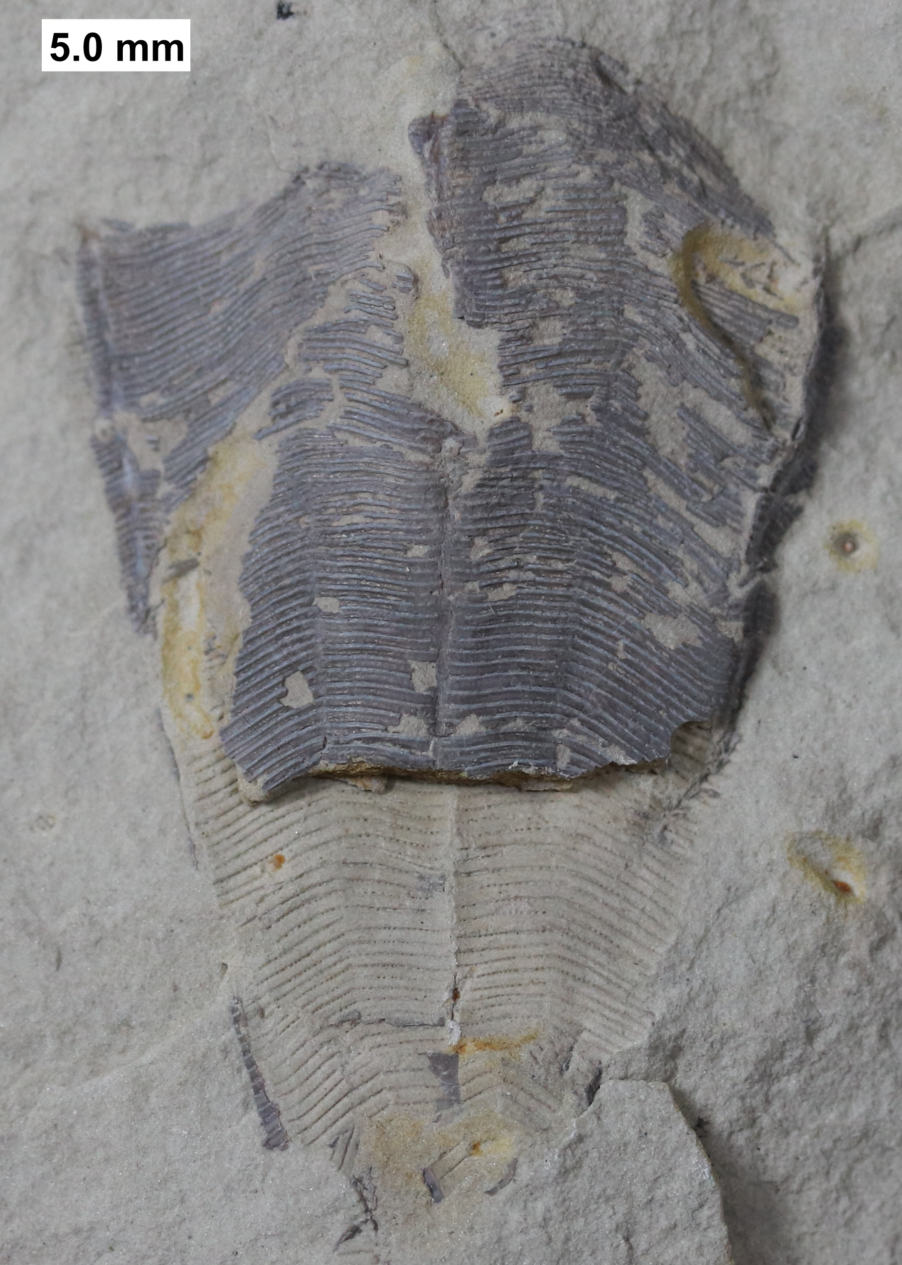 The conulariid Conularia milwaukeensis Cleland, 1911; Middle Devonian; Milwaukee Formation; Berthelet Member; Milwaukee County, Wisconsin; MPM P28134; collected by K.C. Gass; photograph originally published in K.C. Gass, J. Kluessendorf, D.G. Mikulic, and C.E. Brett, 2019. Fossils of the Milwaukee Formation: A Diverse Middle Devonian Biota from Wisconsin, USA. Siri Scientific Press, Manchester, UK.